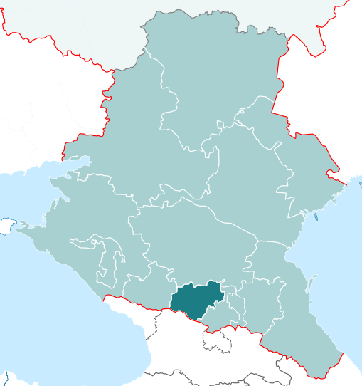 Locator map of Kabardino-Balkar Republic as part of former Southern Federal District before North Caucasian Federal District was split from it in 2010